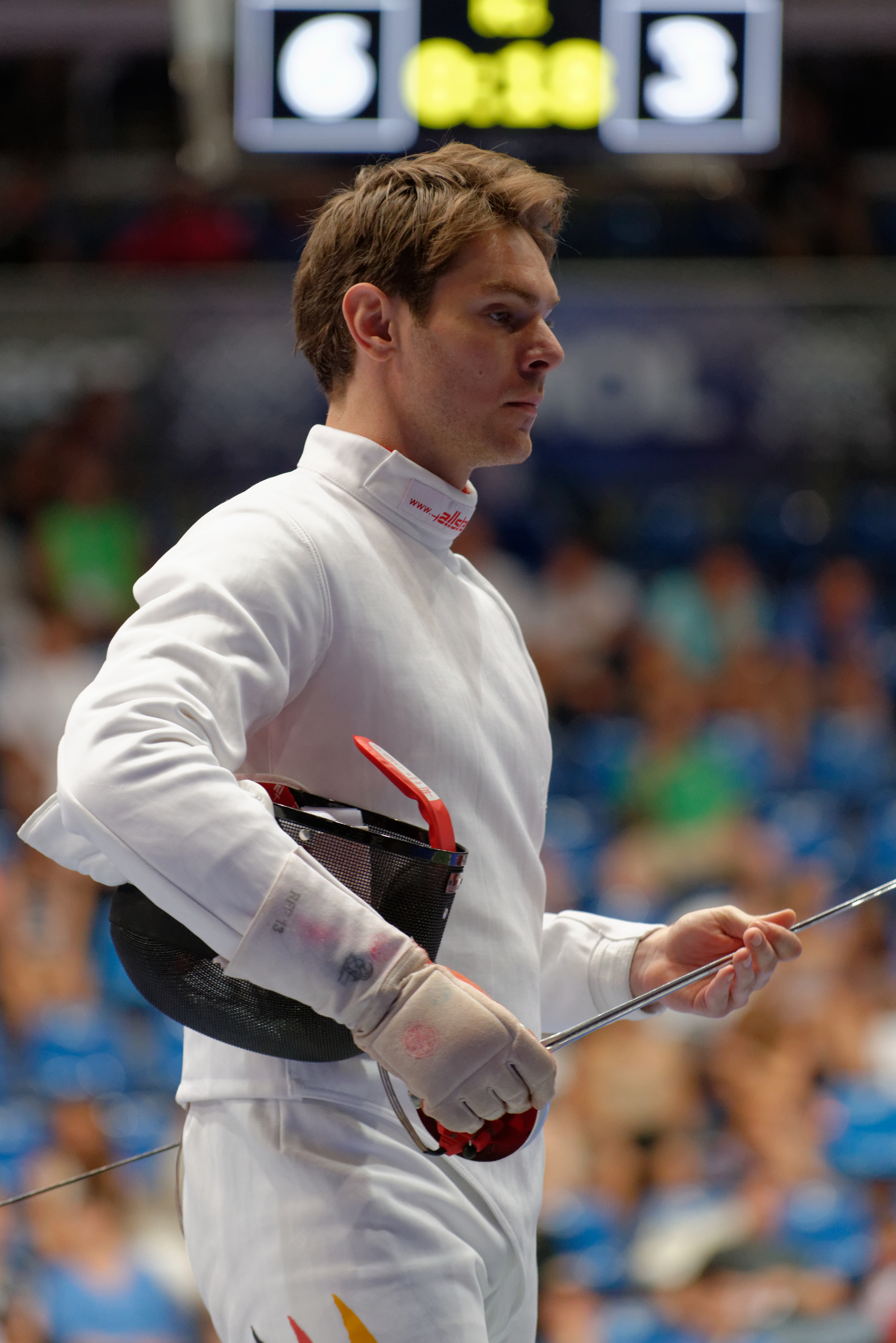 Germany's Norman Ackermann during his bout against Rolf Nickel from Chile in the table of 64 of the men's épée event in the 2013 World Fencing Championships 2013 at Syma Hall in Budapest, 8 August 2013.